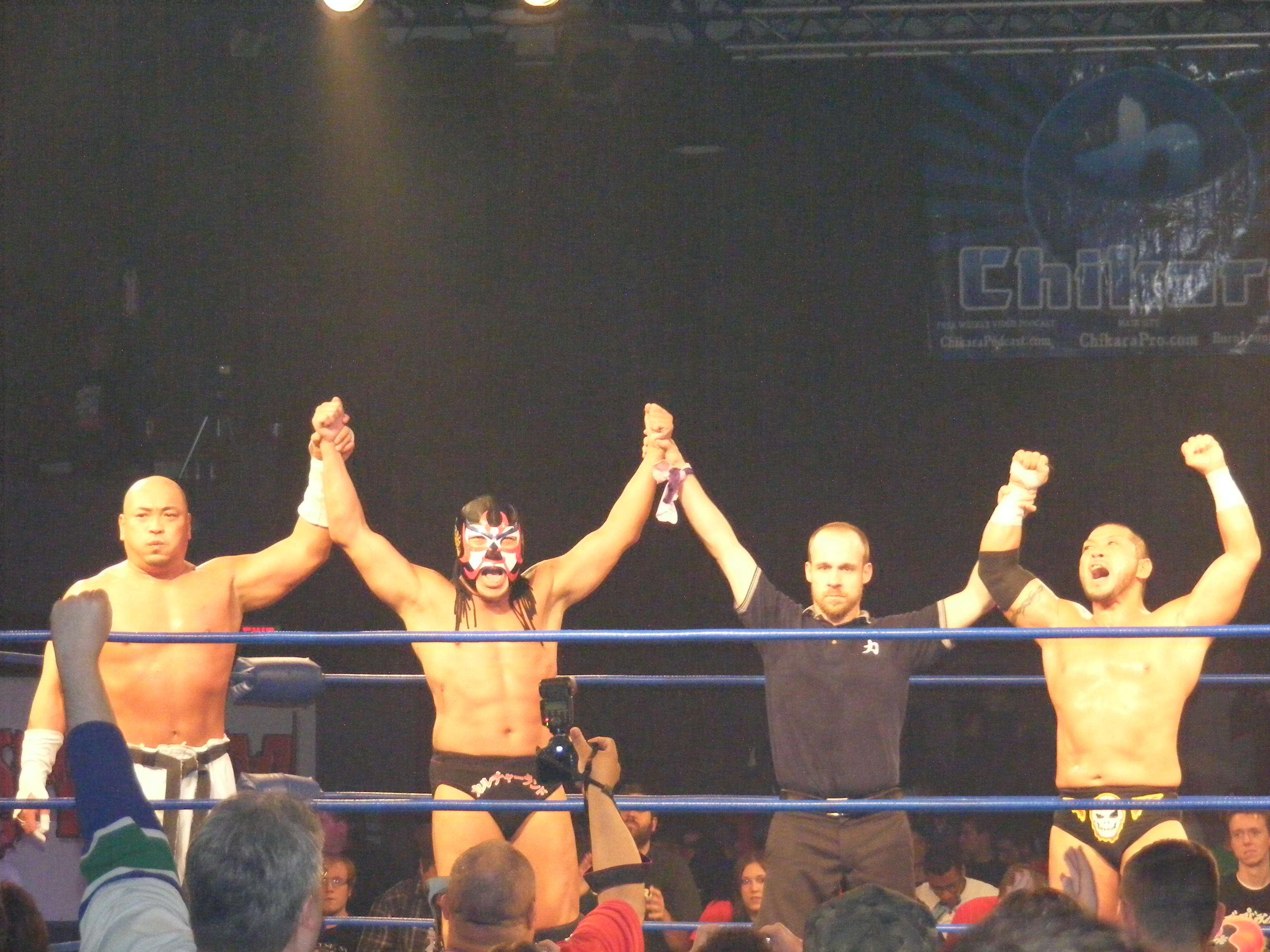 Professional wrestlers Jinsei Shinzaki, Great Sasuke and Dick Togo with referee Bryce Remsburg at Chikara King of Trios 2011.